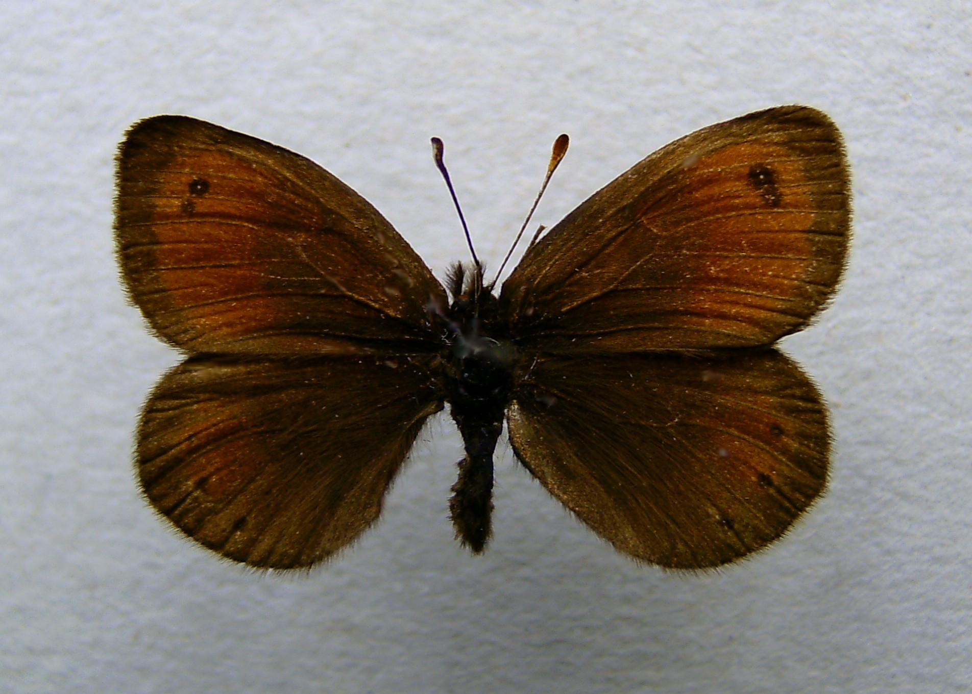 Erebia gorge